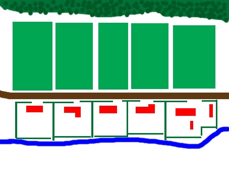 Diagram of a Hagenhufendorf - a type of linear village found in Germany